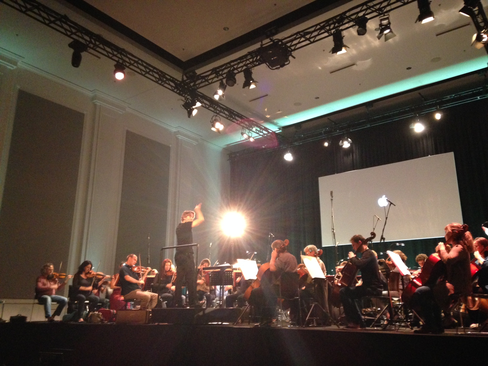 Esa-Pekka Salonen and the Philharmonia performed Lutoslawski, Sibelius, and Salonen at the Apple store in Berlin